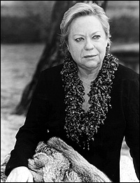 Sonsoles Benedicto, spanish actress